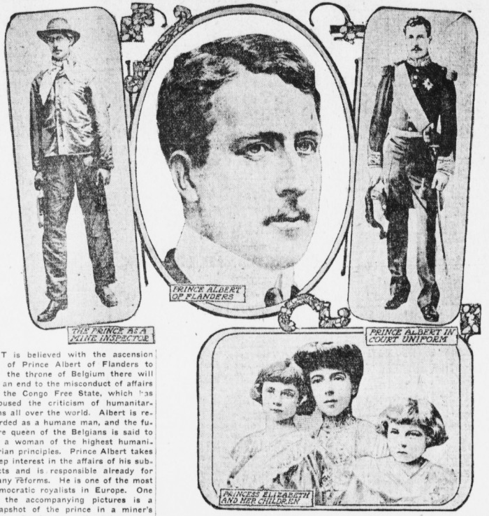 Newspaper clipping upon the accession of Albert I as King of the Belgians, with Albert in miner's attire after having made an inspection of a mine. Also shown: Princess Elizabeth and her two children.